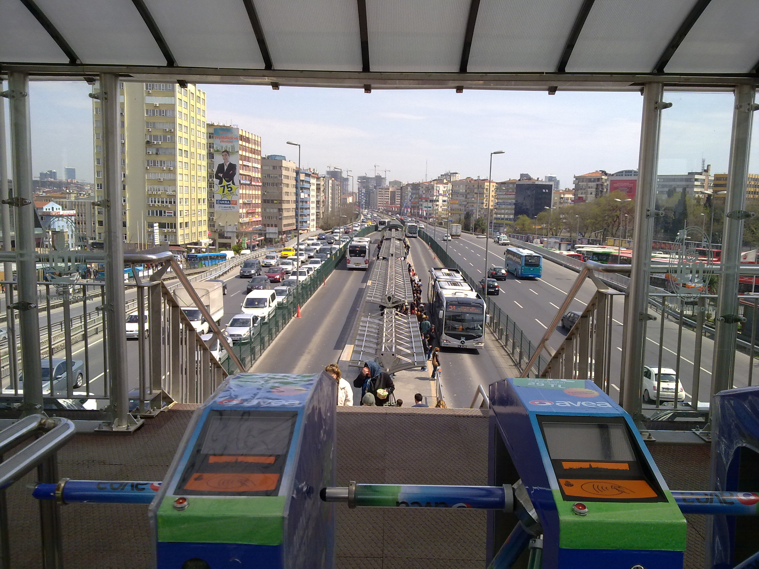 Metrobus (İstanbul) Mecidiyeköy station